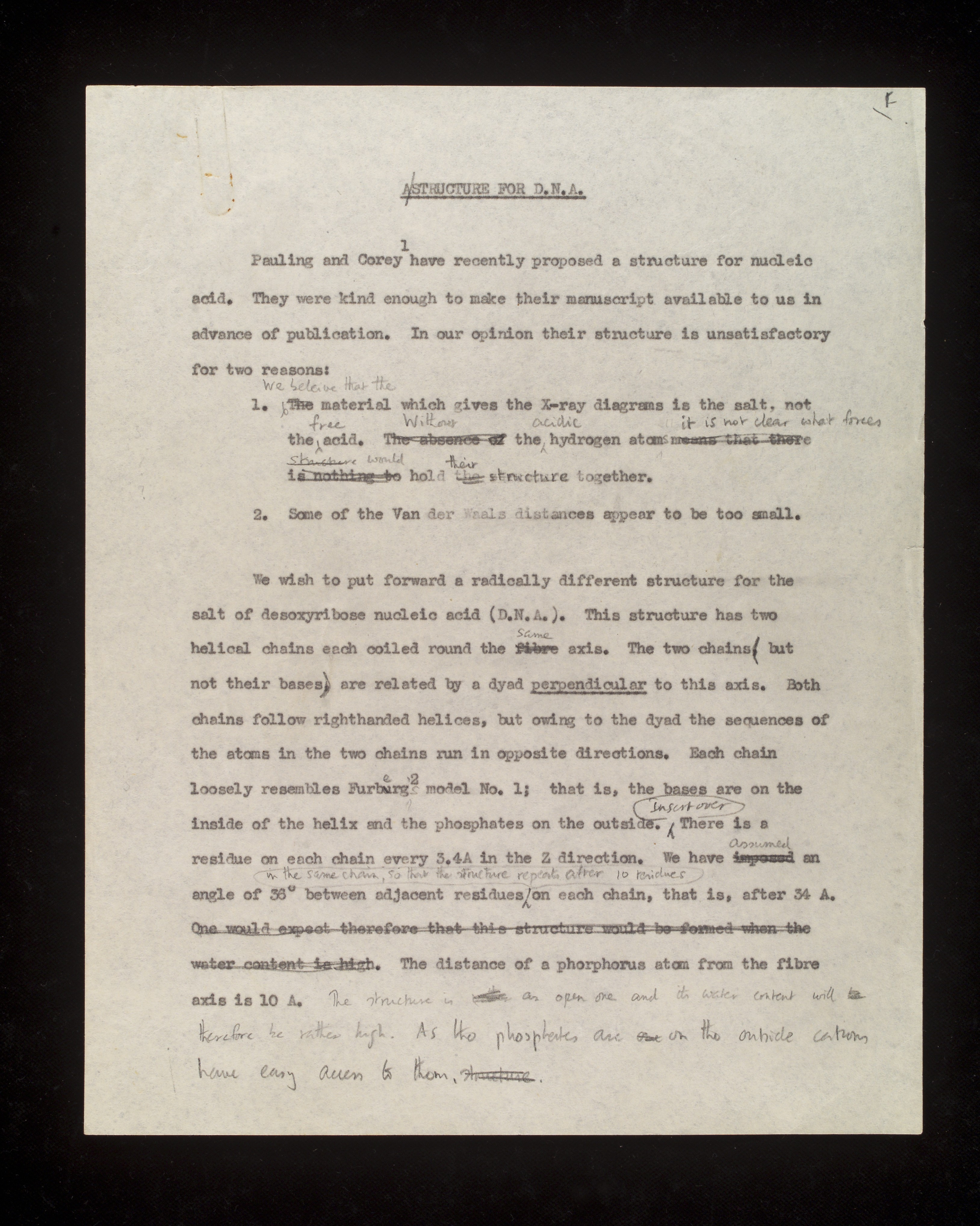 Part 1 of an early draft of the first Watson and Crick paper published as "Molecular structure of nucleic acids: a structure for deoxyribose nucleic acid," Nature, 171: 4356 (25 April, 1953), pp 737-8 Archives & Manuscripts Keywords: Genetics; Molecular Biology; Nucleic Acids; James Dewey Watson; Francis Harry Compton Crick; DNA; Nucleic acid